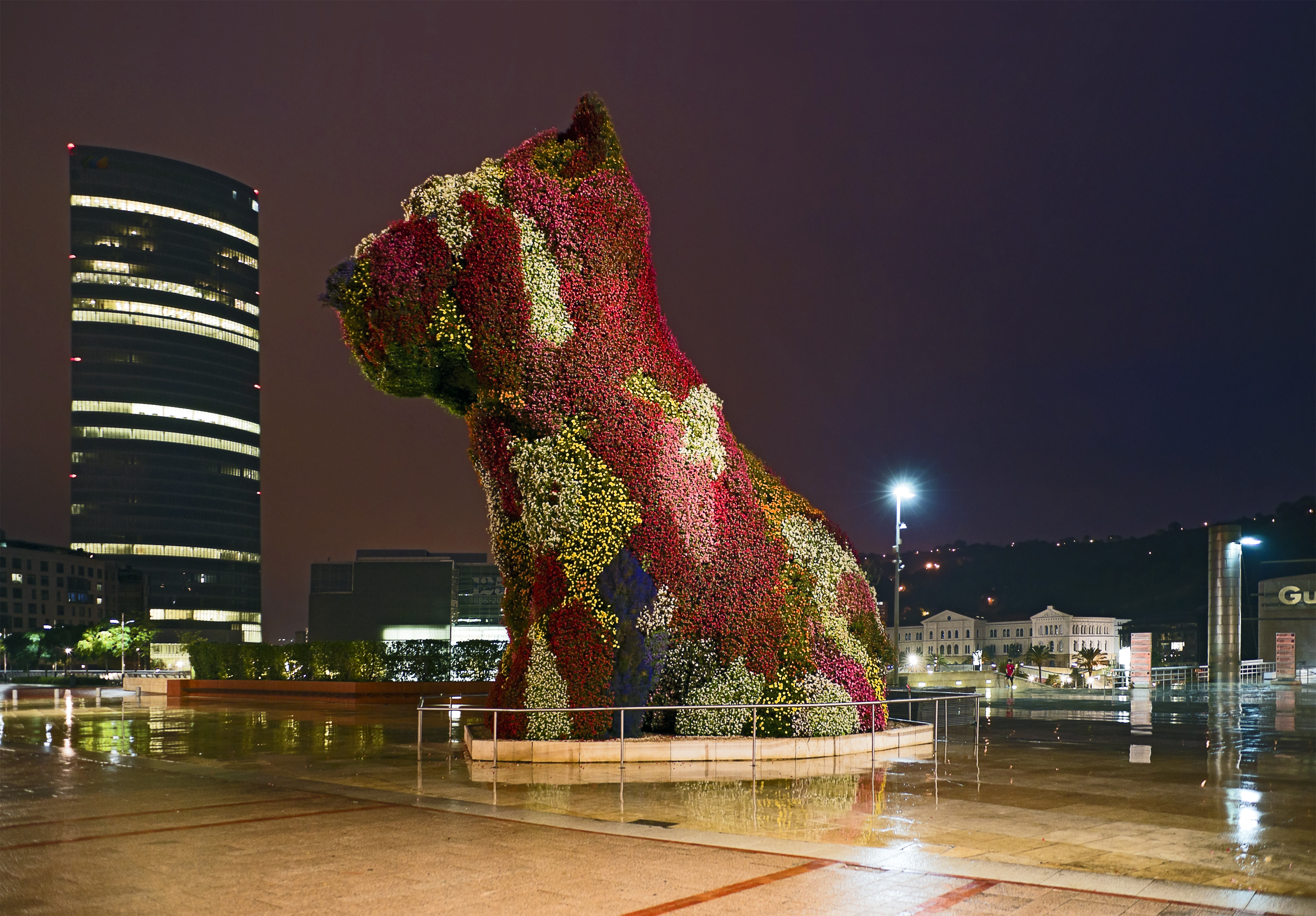 The "Puppy" topiary sculpture by Jeff Koons - on the outdoor terrace at Guggenheim Museum Bilbao, Spain.